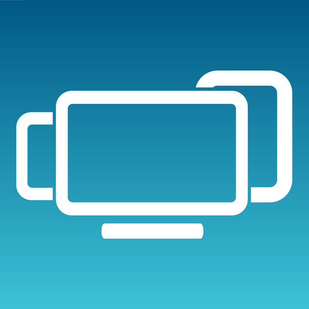 icon for Meo Telecommunication's Meo Go